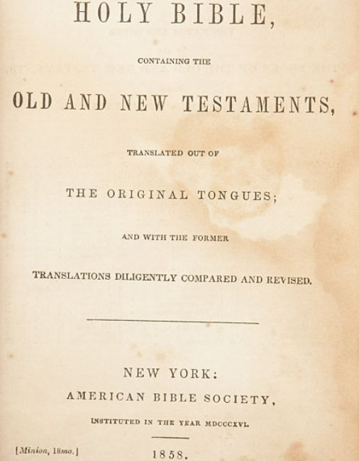 KJV Holy Bible 1858